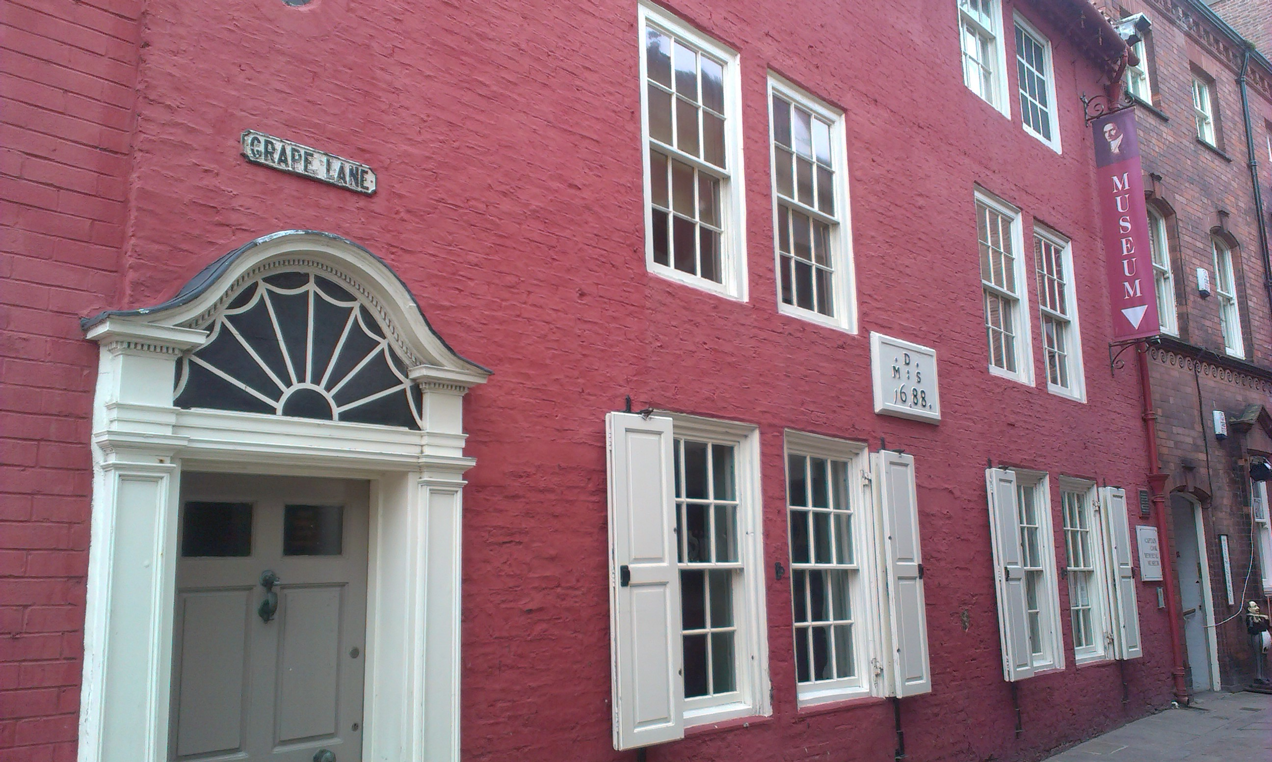 Captain Cooks House